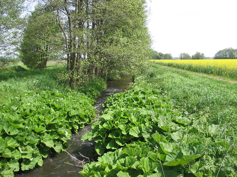 Belzig/Fredersdorfer Bach (stream) in the Belziger Landschaftswiesen nearby the village Fredersdorf. Fredersdorf is a part of the town Belzig in Brandenburg, Germany.